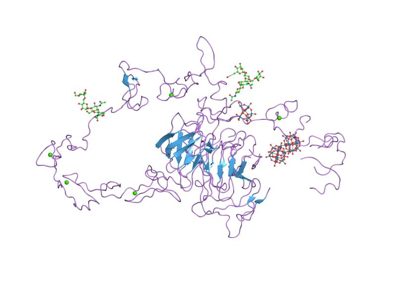 Cartoon representation of the molecular structure of protein registered with 1n7d code.